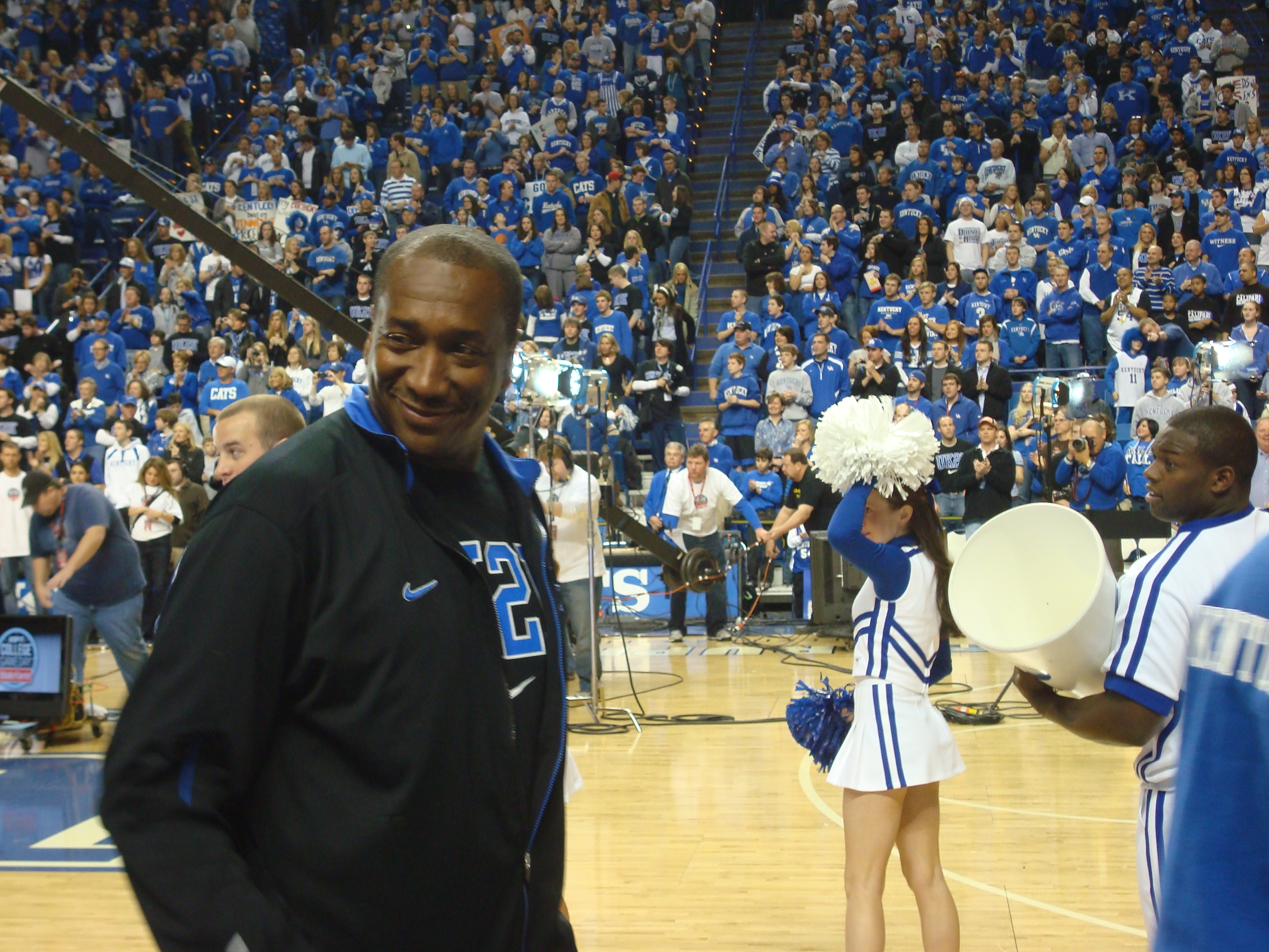 picture of Jack Givens